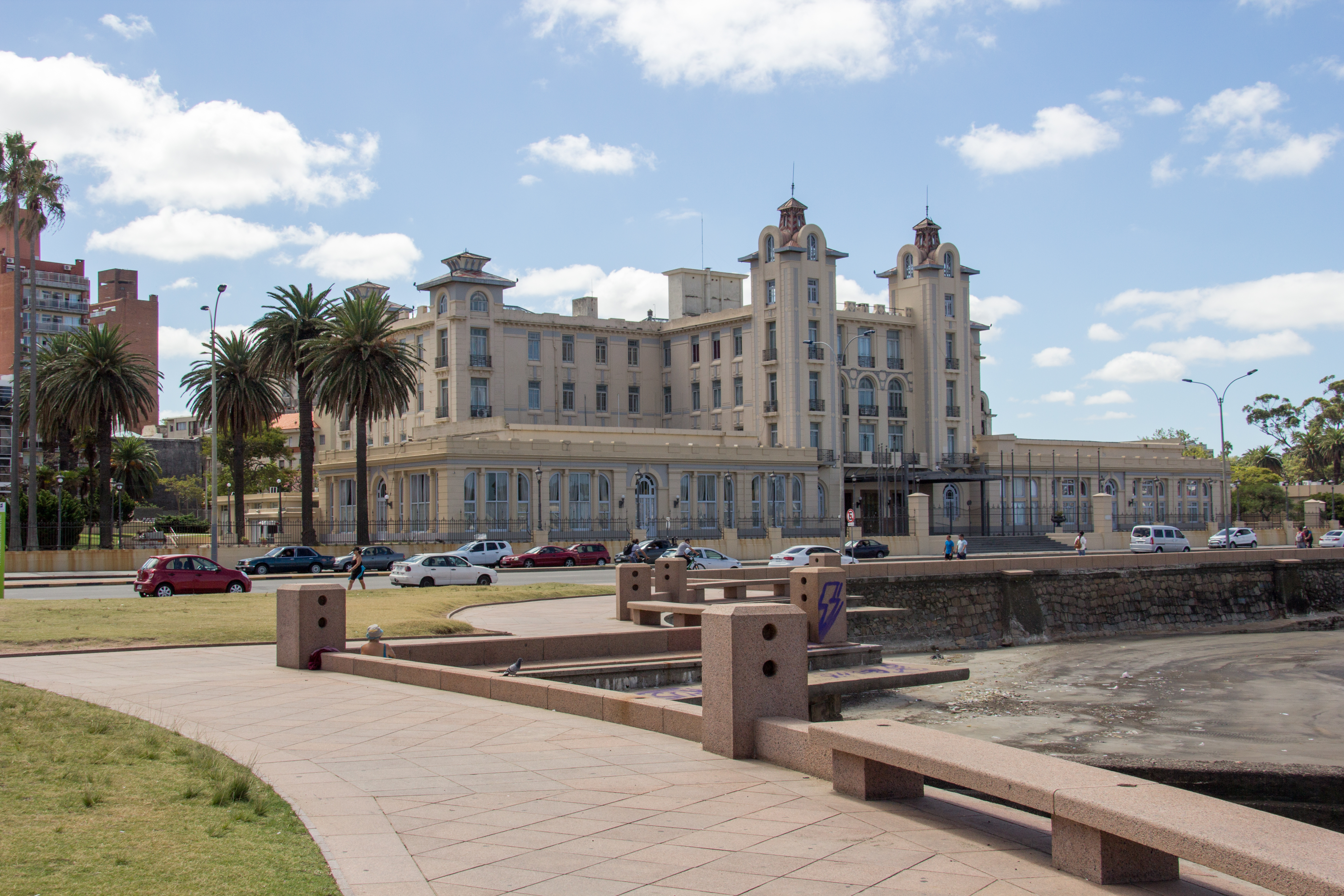 Edificio Mercosur, Montevideo, Uruguay.